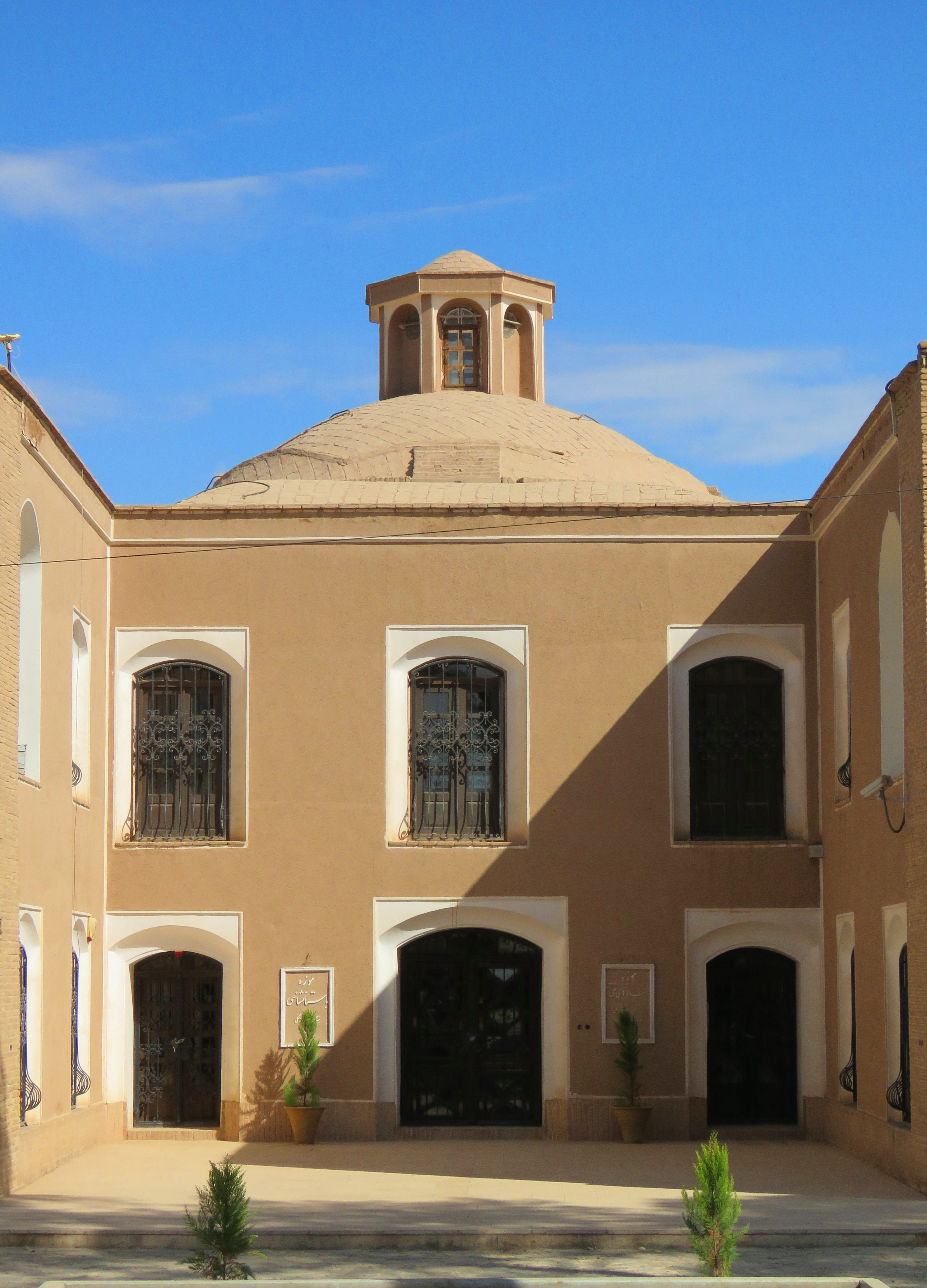 Harandi Garden